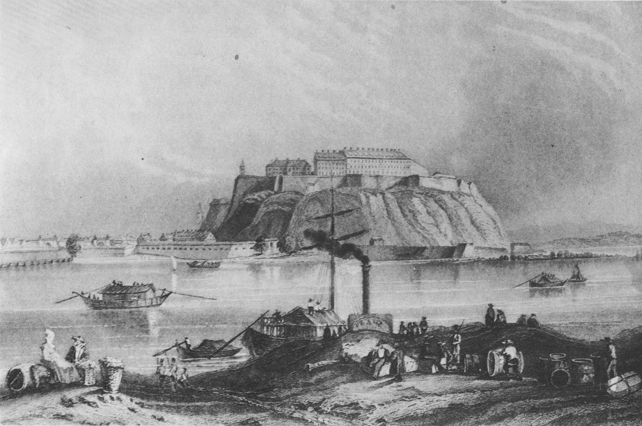 Petrovaradin fortress after 1830 (from V. H. Bartlet's book).